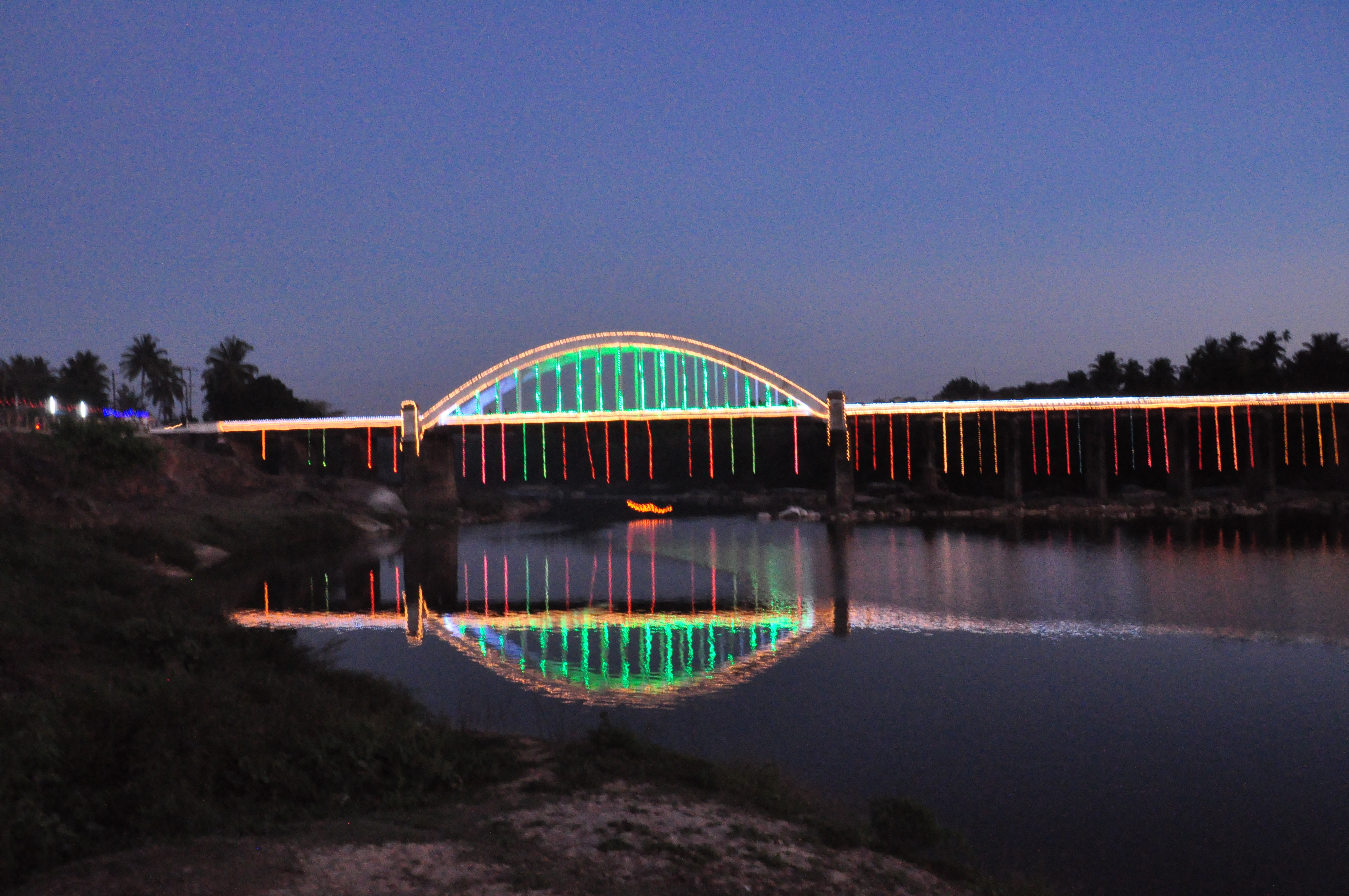 Thirthahalli Yellammavase Jathre 2012